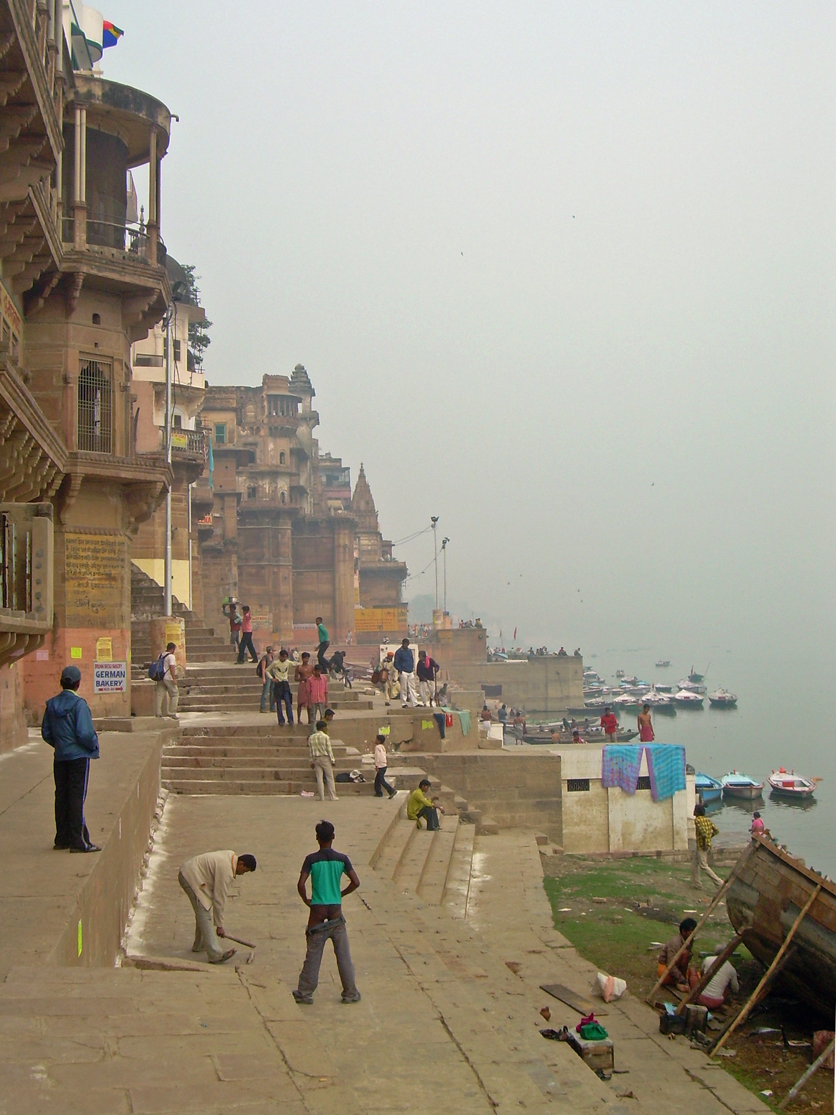 Two boys play the traditional Indian game of Gilli-danda at the Rana Mahal Ghat on the Ganges river in Varanasi, Uttar Pradesh, India